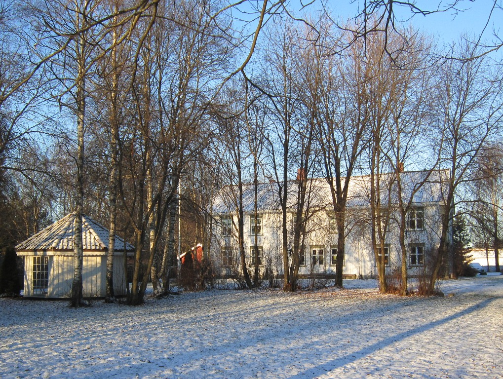 Elverum parsonage